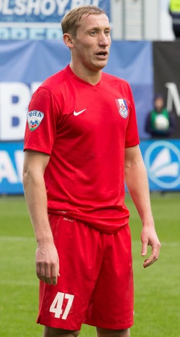 Vladislav Sysuyev with FC Mordovia Saransk in a game against FC Dynamo Moscow.